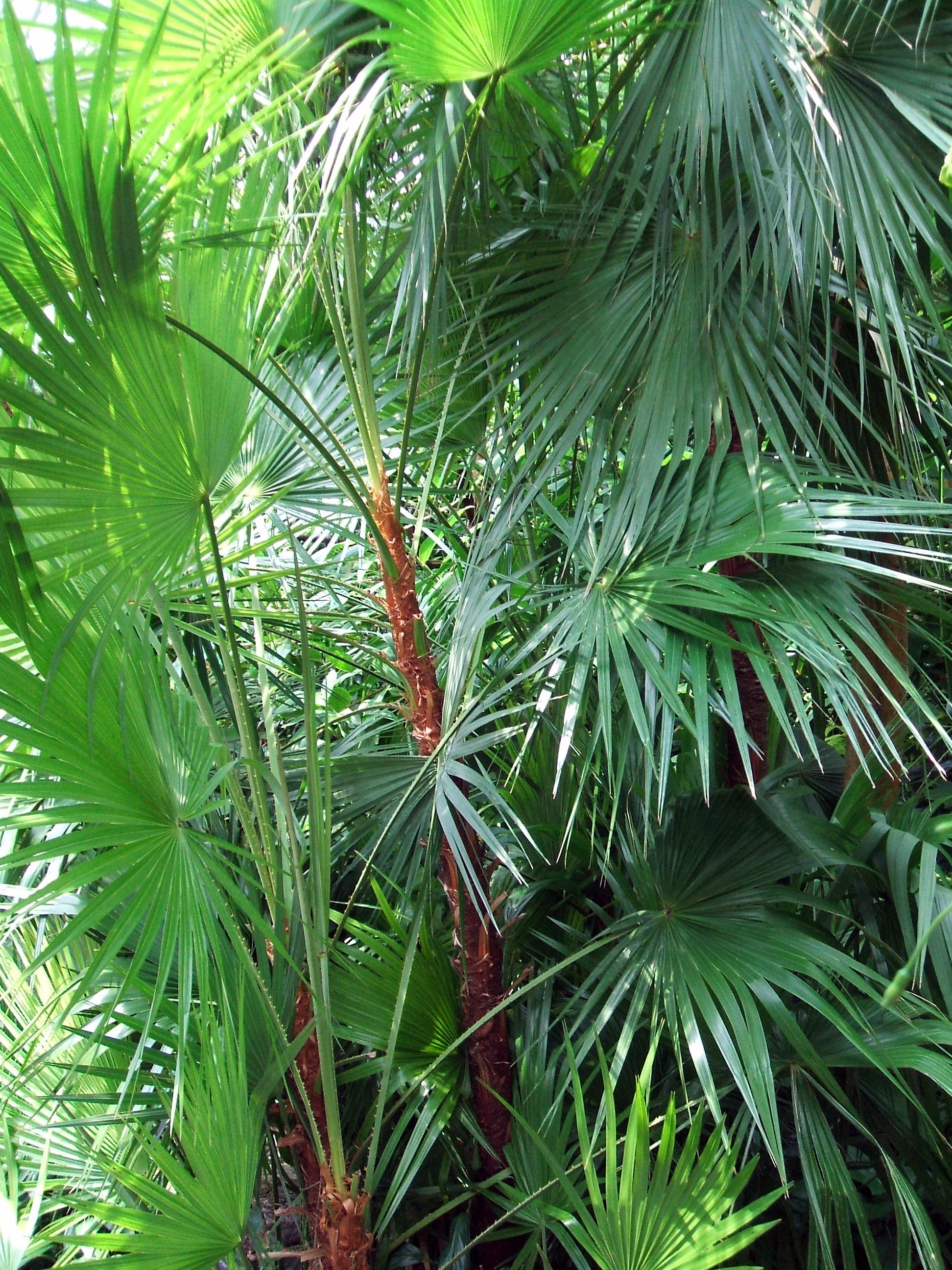 Acoelorraphe wrightii, at the Missouri Botanical Garden.